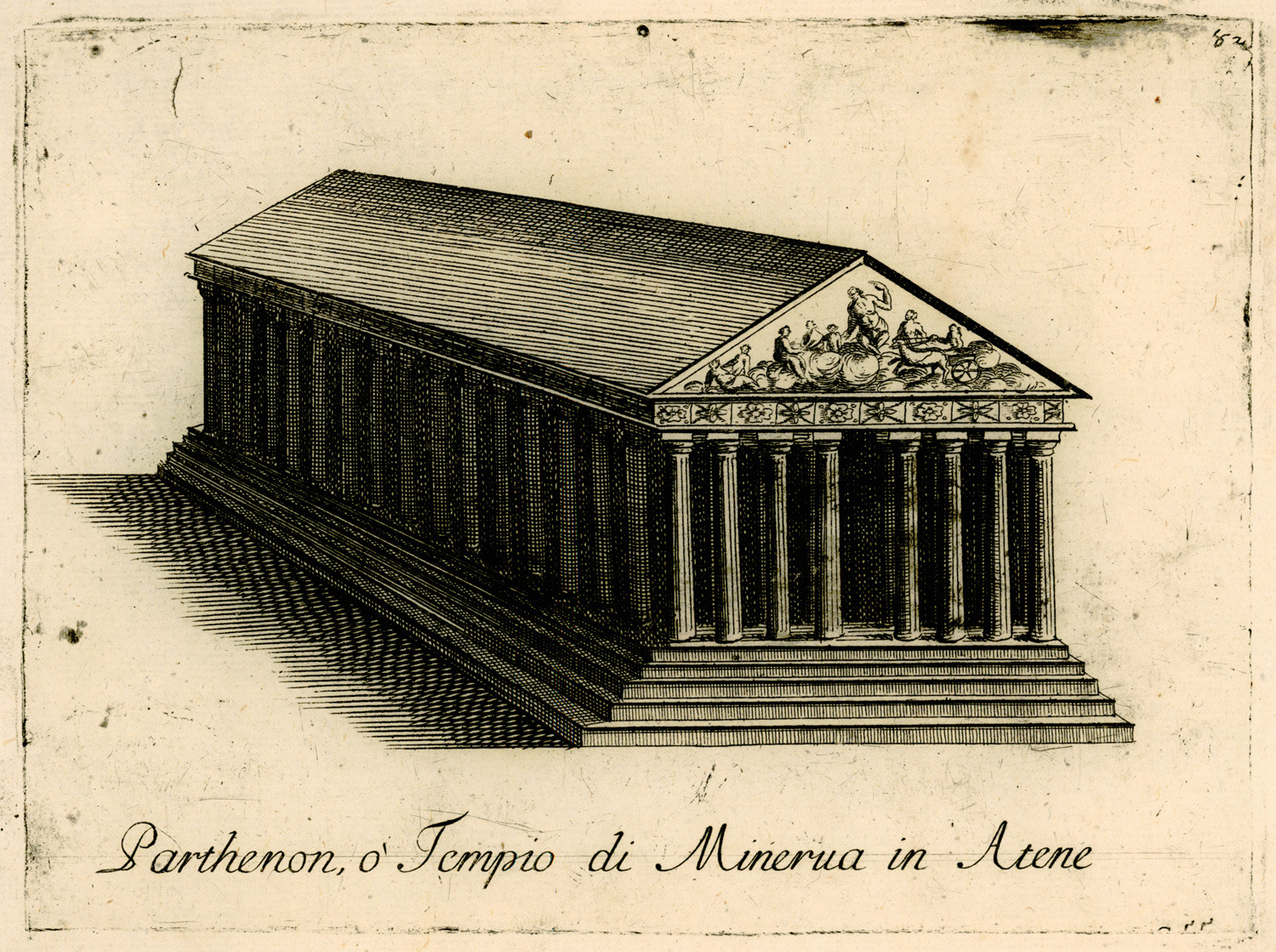 Vincenzo Coronelli - Repubblica di Venezia p. IV. Citta, Fortezze, ed altri Luoghi principali dell' Albania, Epiro e Livadia, e particolarmente i posseduti da Veneti descritti e delineati dal p. Coronelli, Venice, 1688.